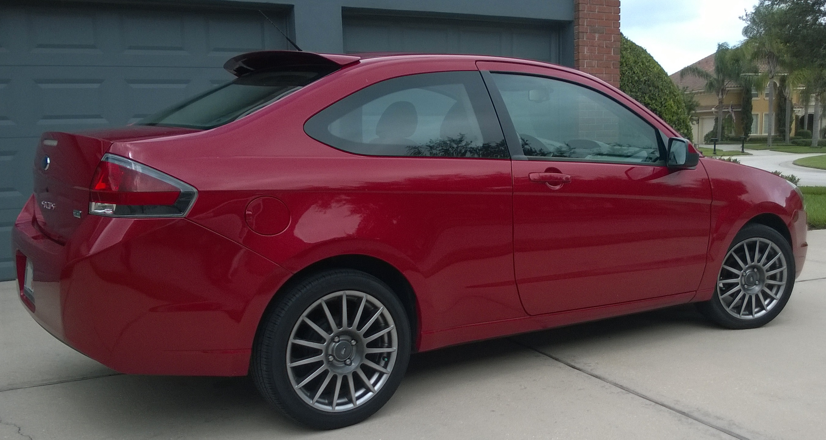 2009 Ford Focus SES coupe (North America)